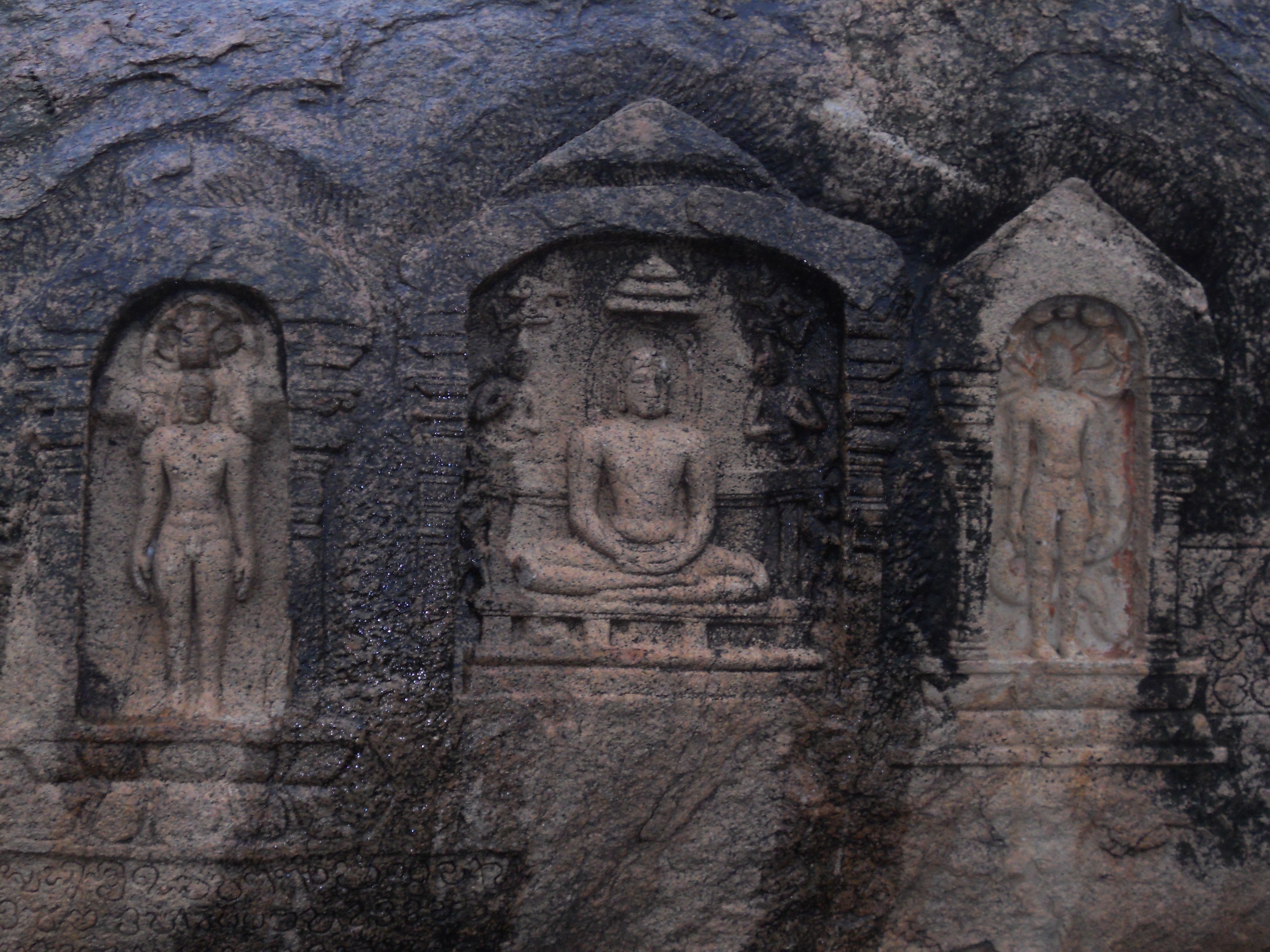 Jain carvings in Samanamalai (Jain Hill) in Kizhakkuilkudi Taluk, Madurai district